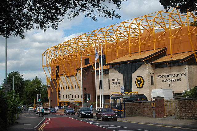 The Molineux - Home of Wolverhampton Wanderers, near to Wolverhampton, Great Britain. It is hard to believe now but this was the most successful club in the 'English' league (let alone the Midlands) during the 1950's. They even surpassed 'The Villa' & that is hard to believe. They almost got the league & cup double but were pipped to the post by Burnley. Strangely both clubs are the new boys in the Premiership for the 2009/10 season - I won't tell you who the other bunch are. Will they stay up? I hope so.